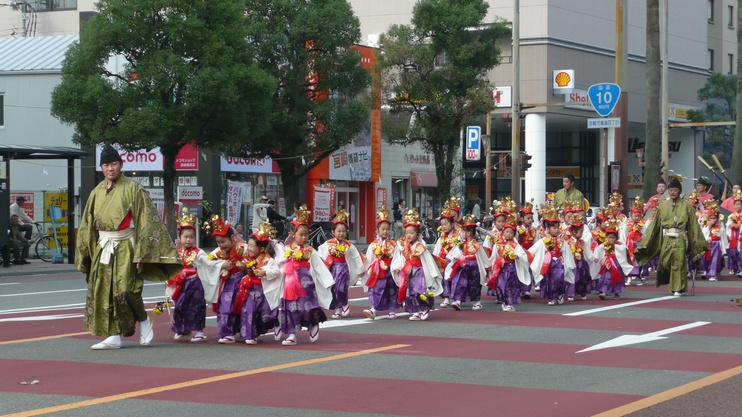 Miyazaki Shrine Grand Festival in 2008 - Onna (female) Chigo.